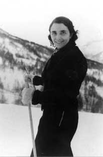 Depicted person: Ada Gobetti (1902 – 1968)